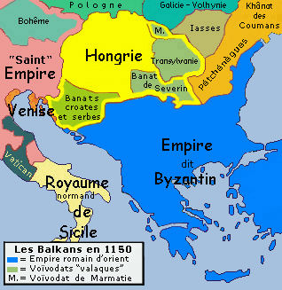 Historic map of Balkan peninsula, 1150